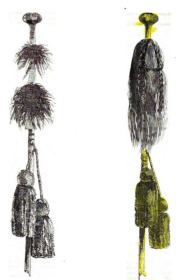 Bunchuk of ukrainian kossacks